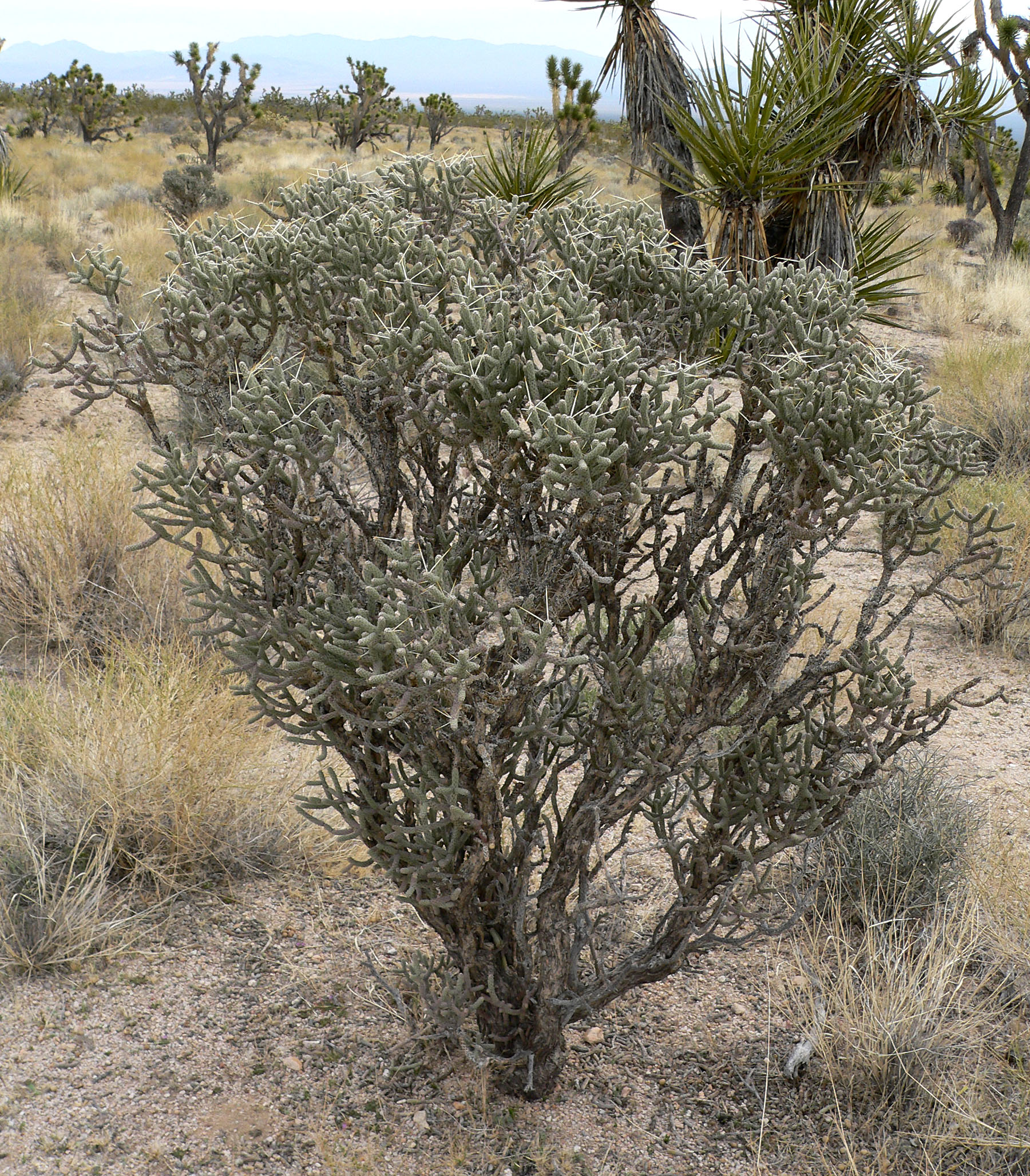 Cylindropuntia_ramosissima off the Nipton Mine Road, Mojave National Preserve, southern California